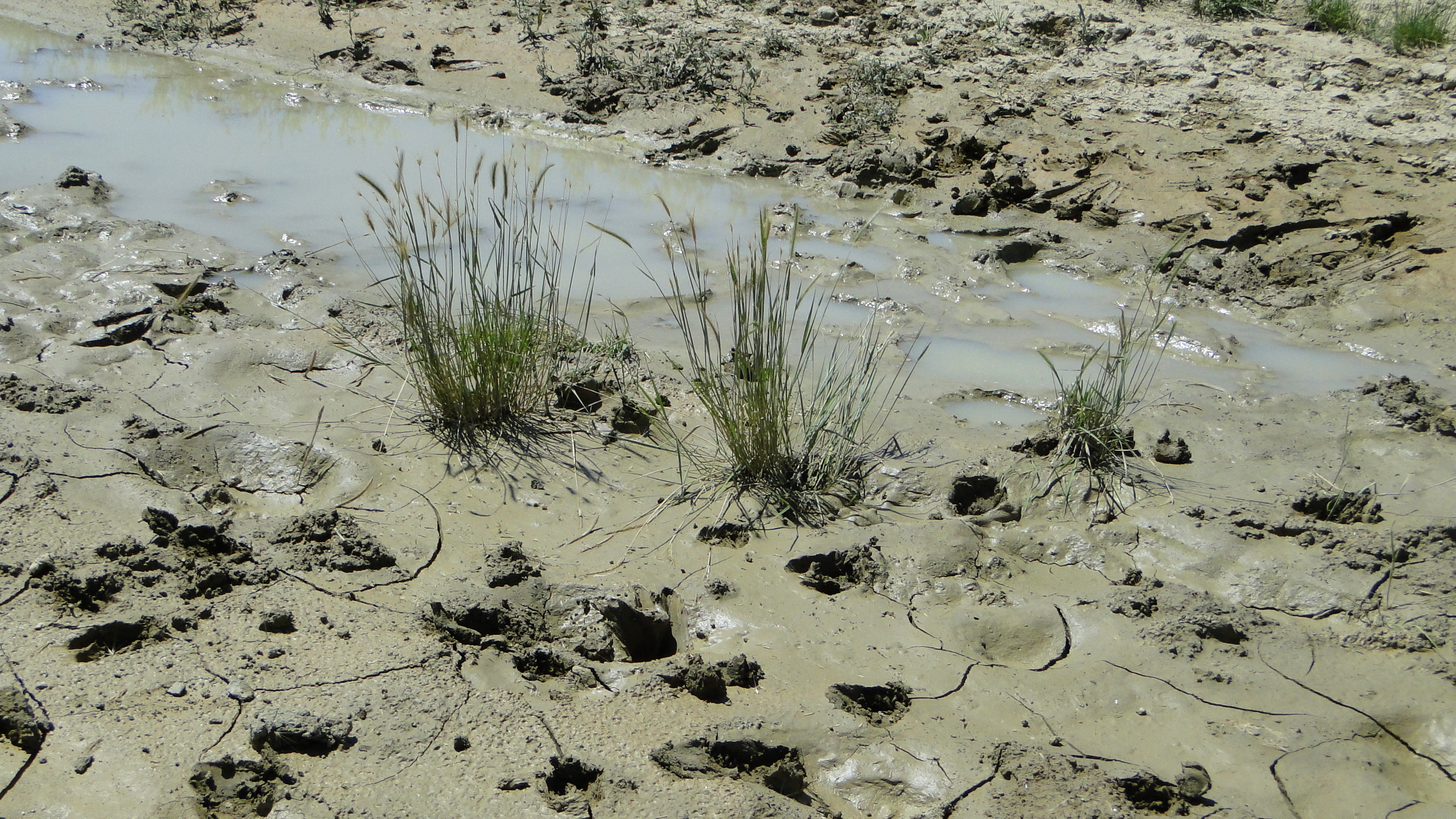 Temporary wetland with pronghorn tracks. Red Desert (Wyoming)